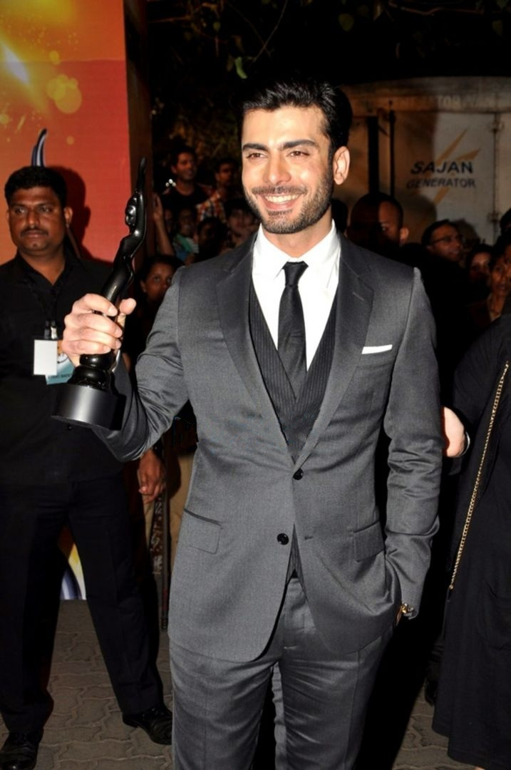 Fawad after winning Best Male Debut Award at Filmfare Awards 2014